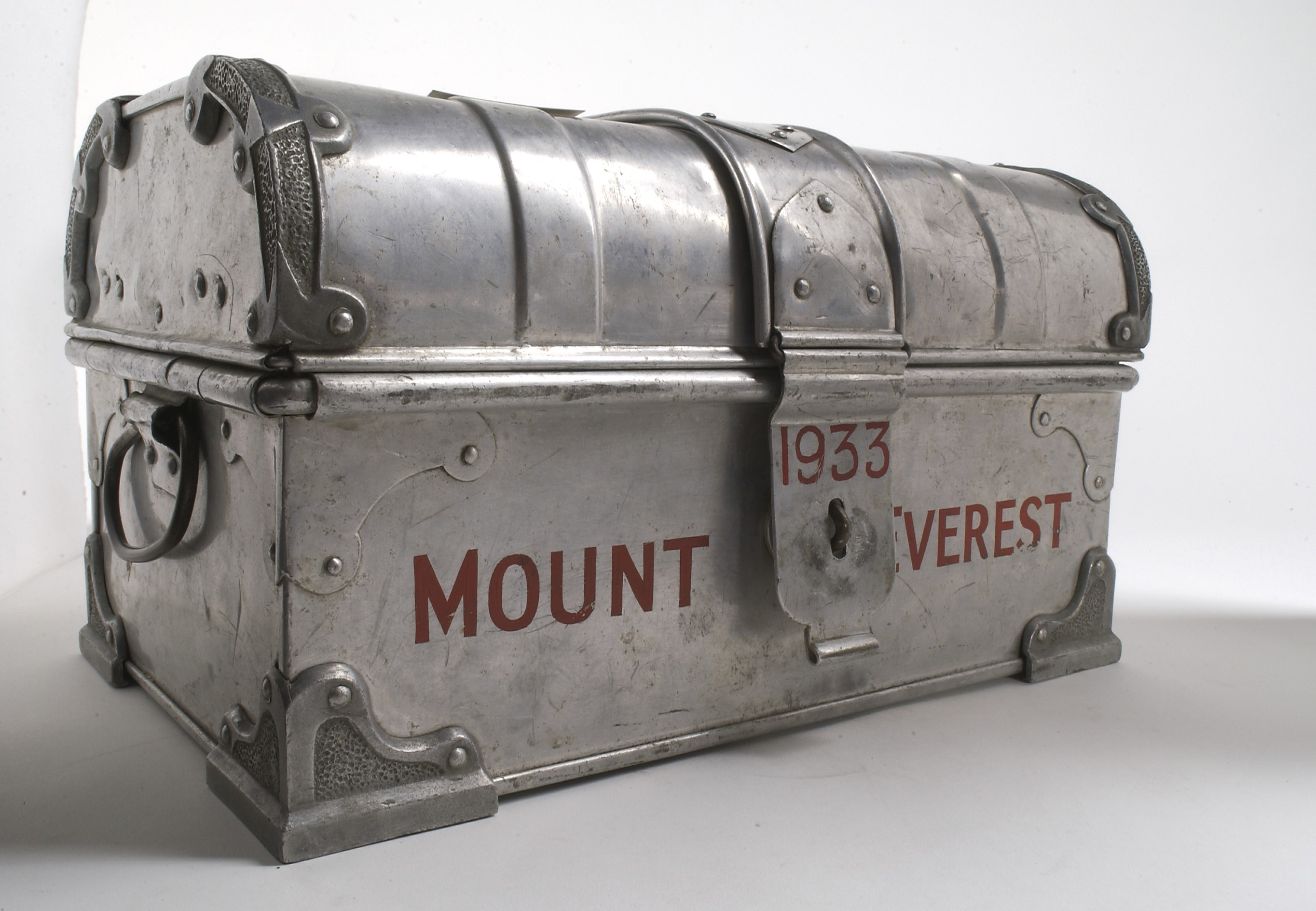 A Tabloid medicine chest, packed with Burroughs Wellcome Tabloid products, used on the 1933 Mount Everest Expedition Wellcome Images Keywords: Tibet; Nepal; British; Equipment and Supplies; Expedition; Supplies; Expeditions